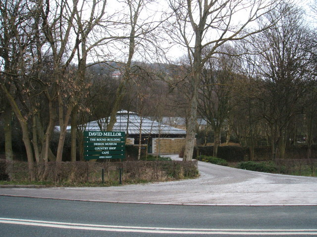 The Round Building "The David Mellor site was formerly the Hathersage village gasworks. The factory was built on the foundations of the old gas cylinder, hence the circular form. Built in local gritstone with spectacular lead roof, this highly functional building is set discreetly in a rural area of outstanding natural beauty." (Quote from David Mellor website)